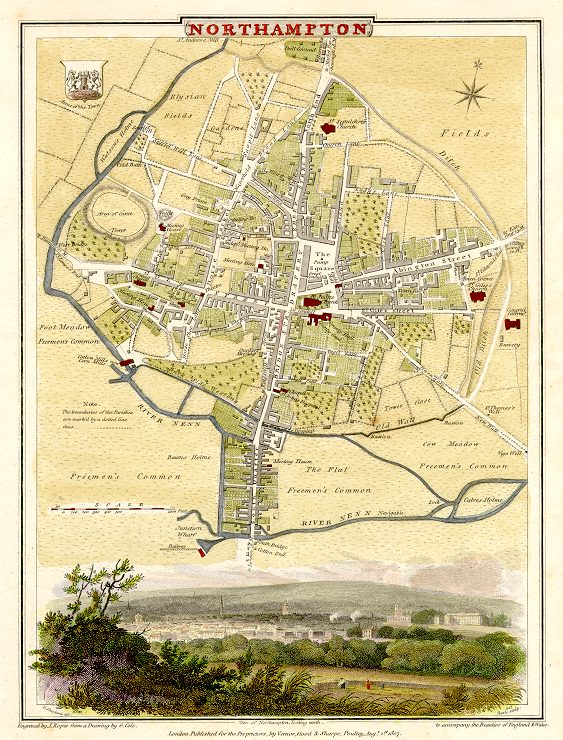 An 1810 engraving of Northampton by George Cole and engraved by J Roper